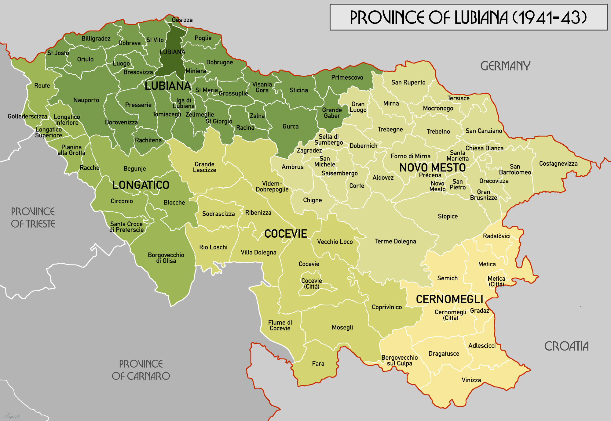 Administrative map of the Province of Lubiana (1941-43). Source data from Volkstumskarte von Jugoslawien, Wilfried Krallert (1941). Unit data from " Fascism's European empire: Italian occupation during the Second World War", Davide Rodogno (2006)